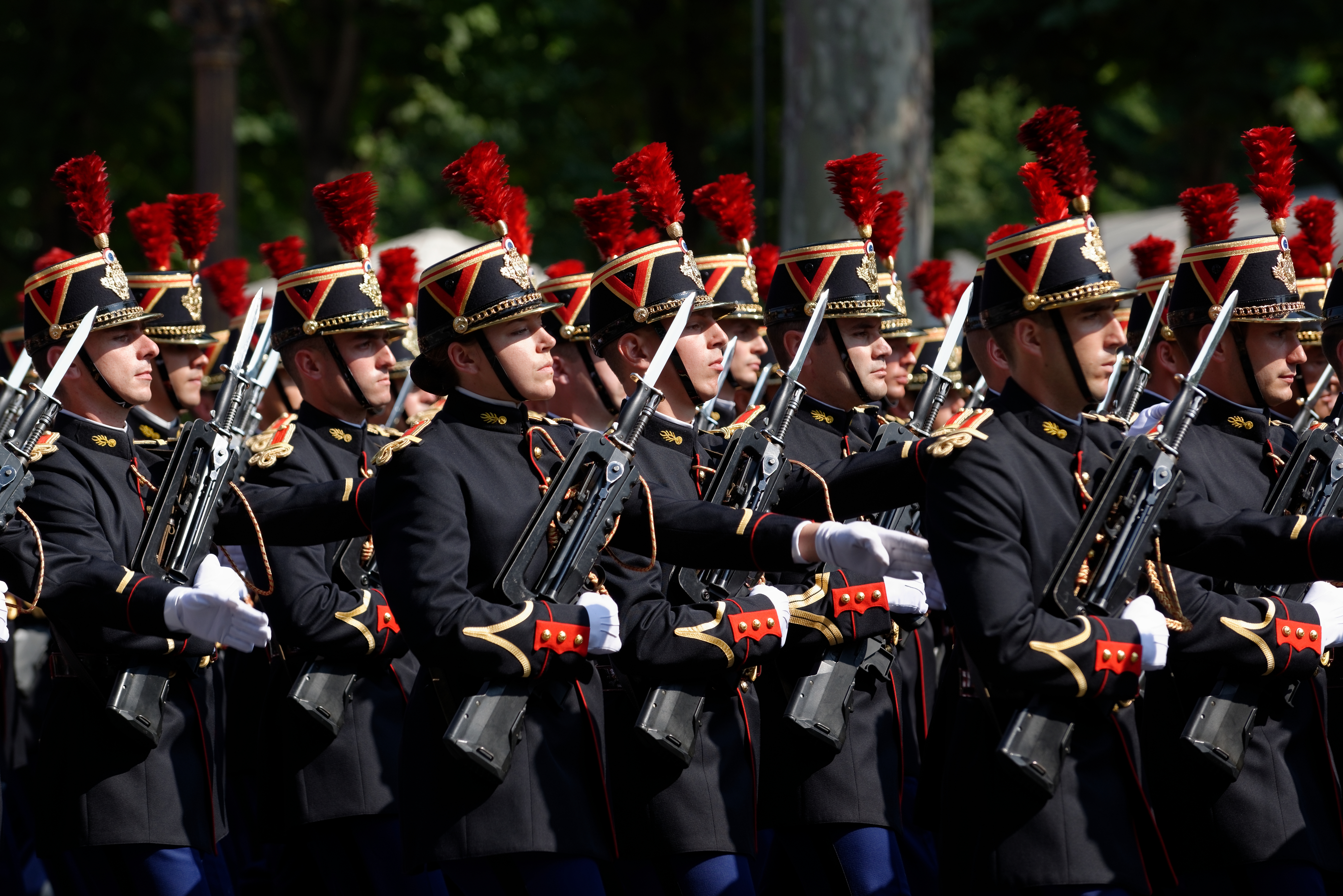 1st Infantry Regiment of the Republican Guard in the Bastille Day 2013 military parade on the Champs-Élysées in Paris.